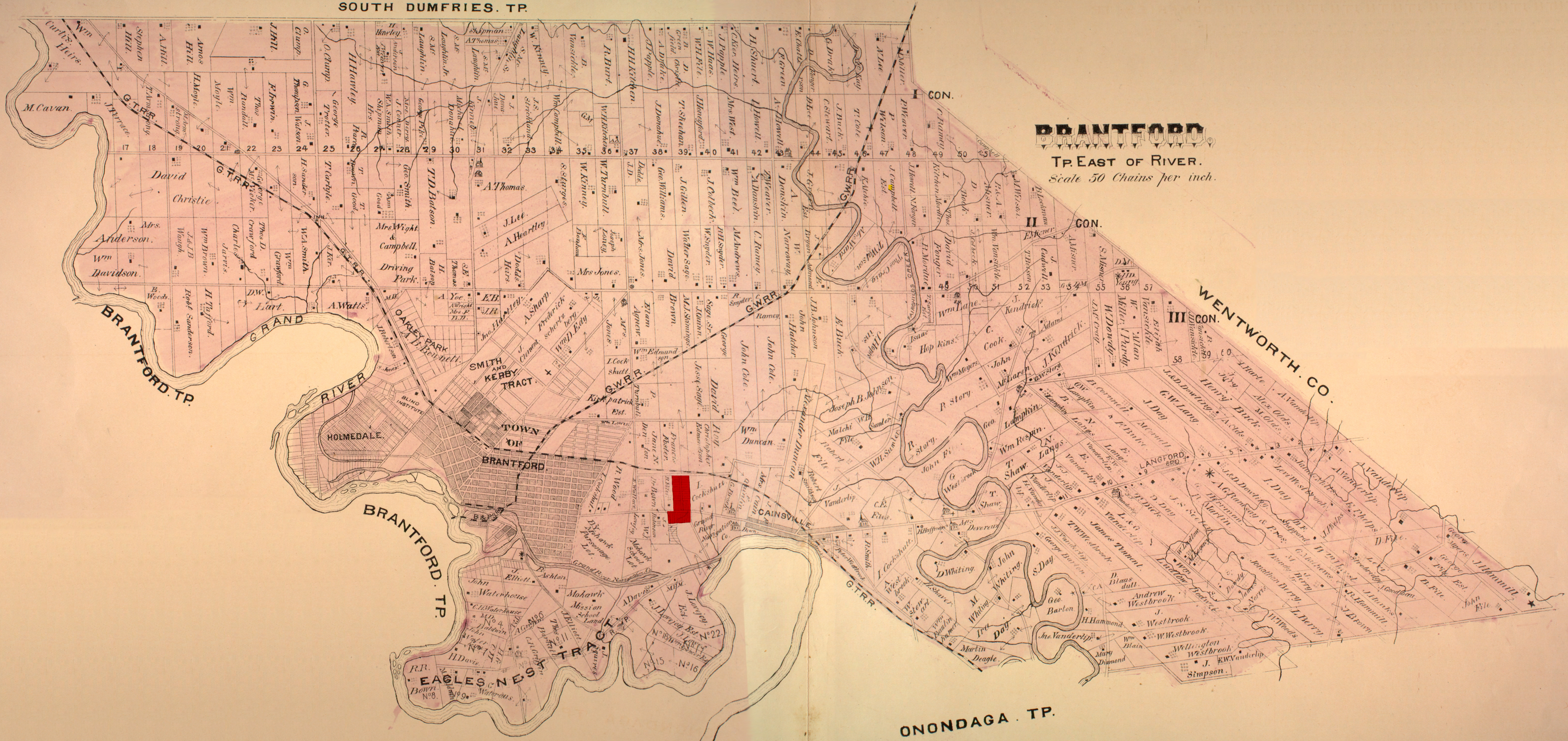 Surveyor's Map of Brant County, Ontario, with Echo Place Highlighted in Red